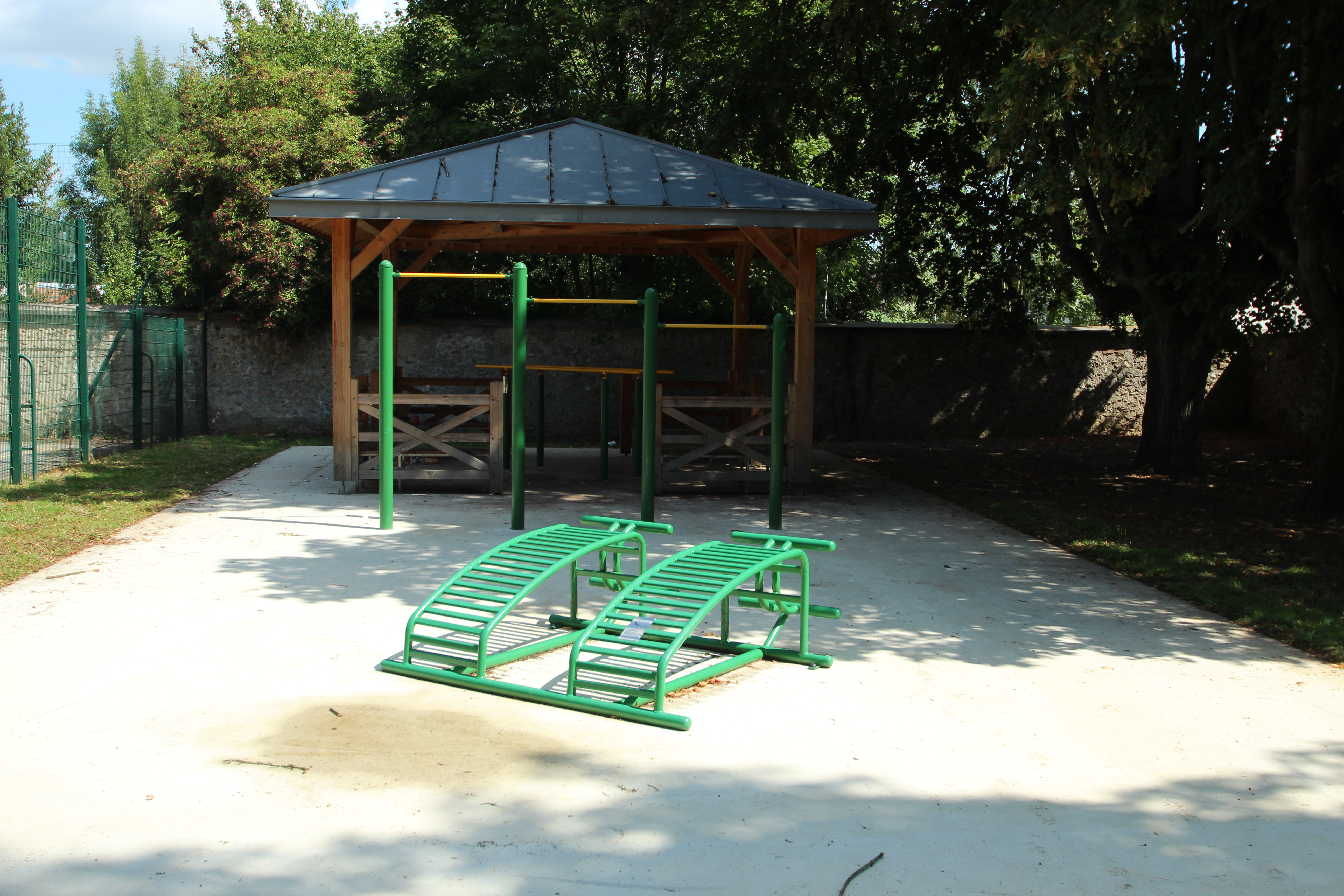 Town hall's park in Saulx-les-Chartreux, France. Object location48° 41′ 26.45″ N, 2° 15′ 55.44″ E This image was uploaded as part of L'Été des villes 2015.